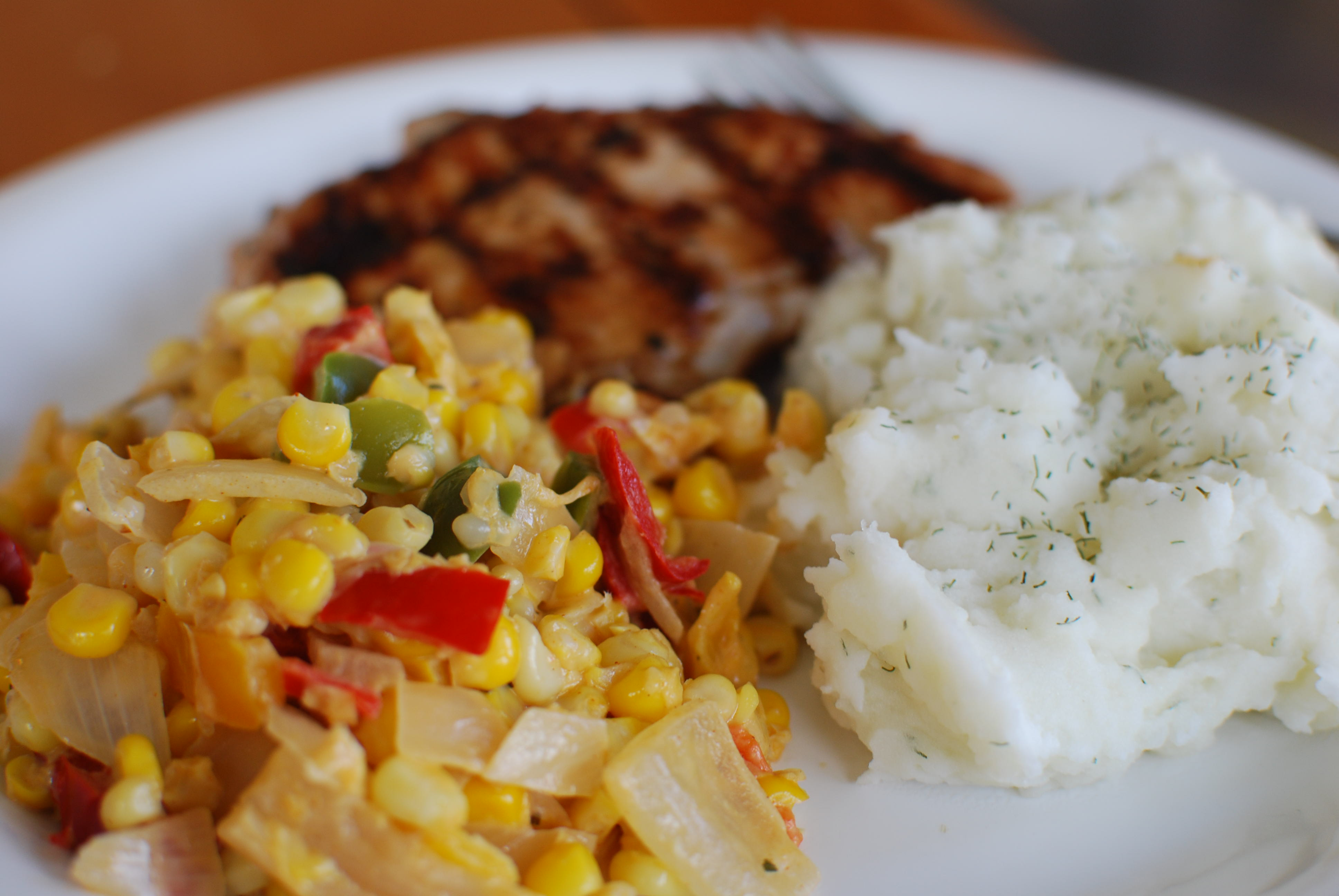 "Mock shoe" Maque choux, zesty dill mashed potatoes and blackened turkey breast. The potatoes were made with dried dill, 1/2c Greek yogurt, 1/2c skim milk, salt and butter.